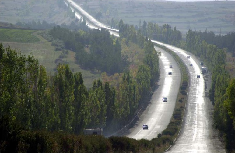 On the road to Armenias capital Yerevan